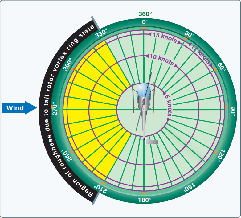 Tail rotor vortex ring state